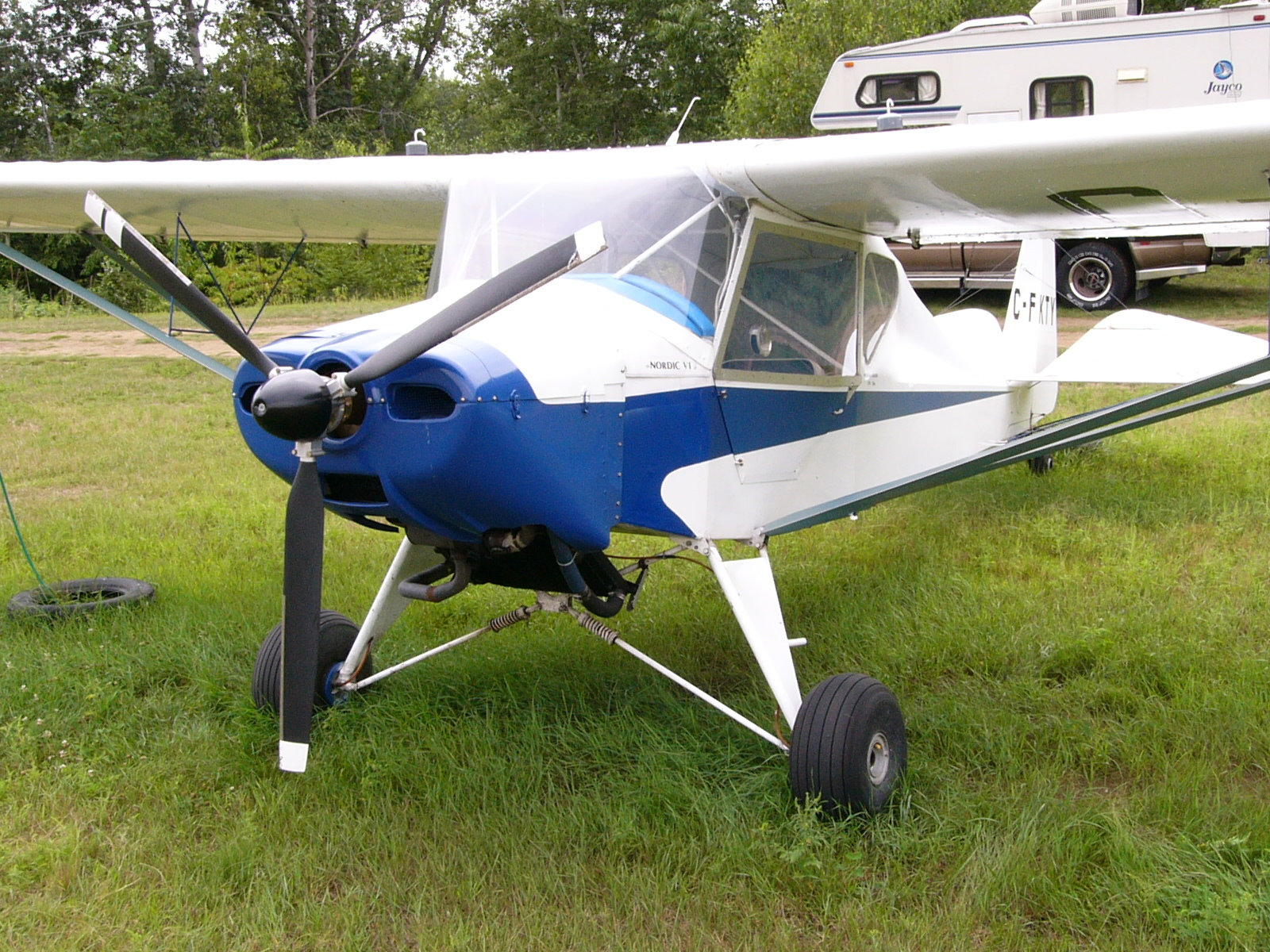 Norman Aviation Nordic VI at Hawkesbury, Ontario